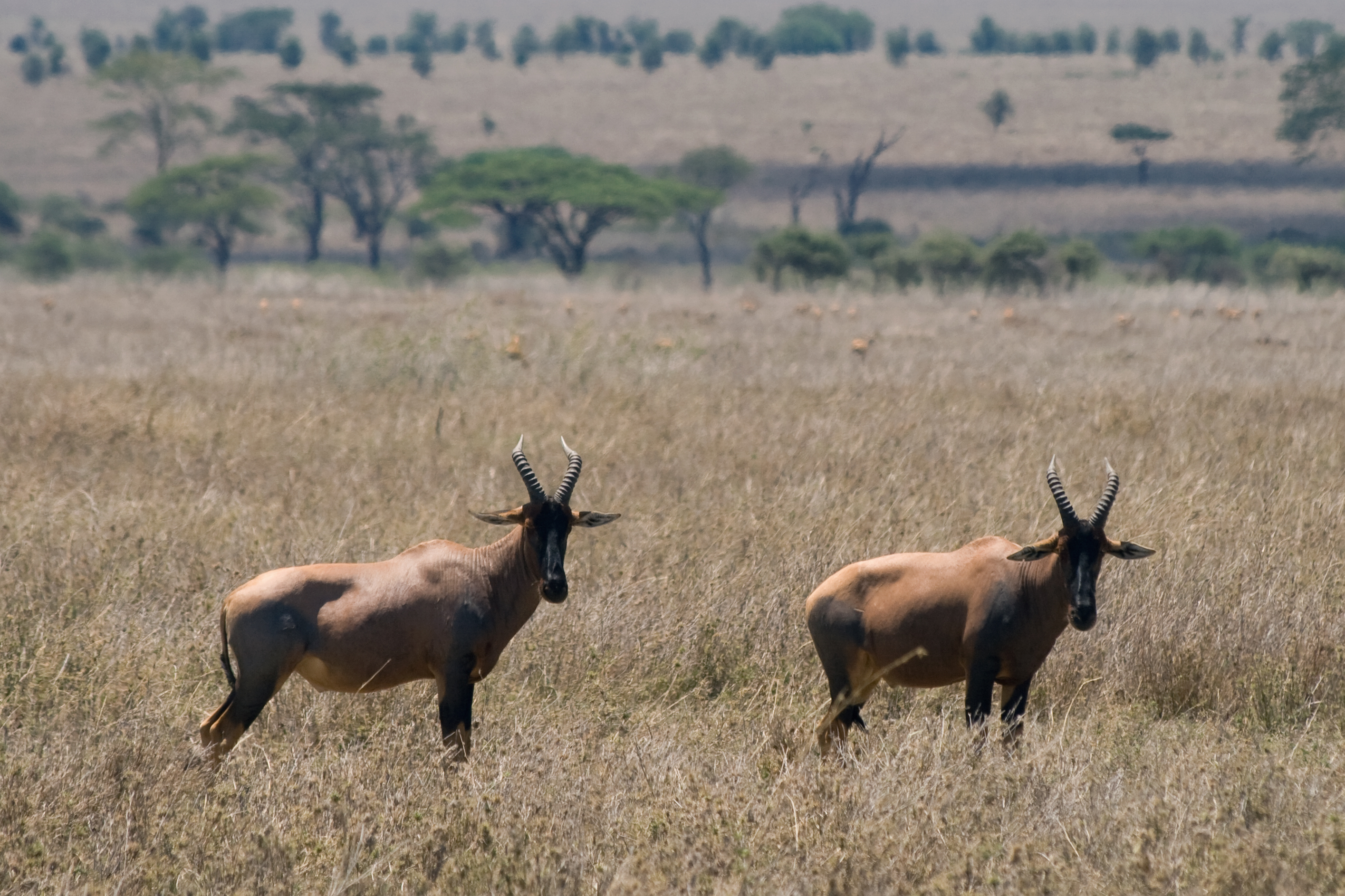 Topis in Serengeti National Park, Tanzania